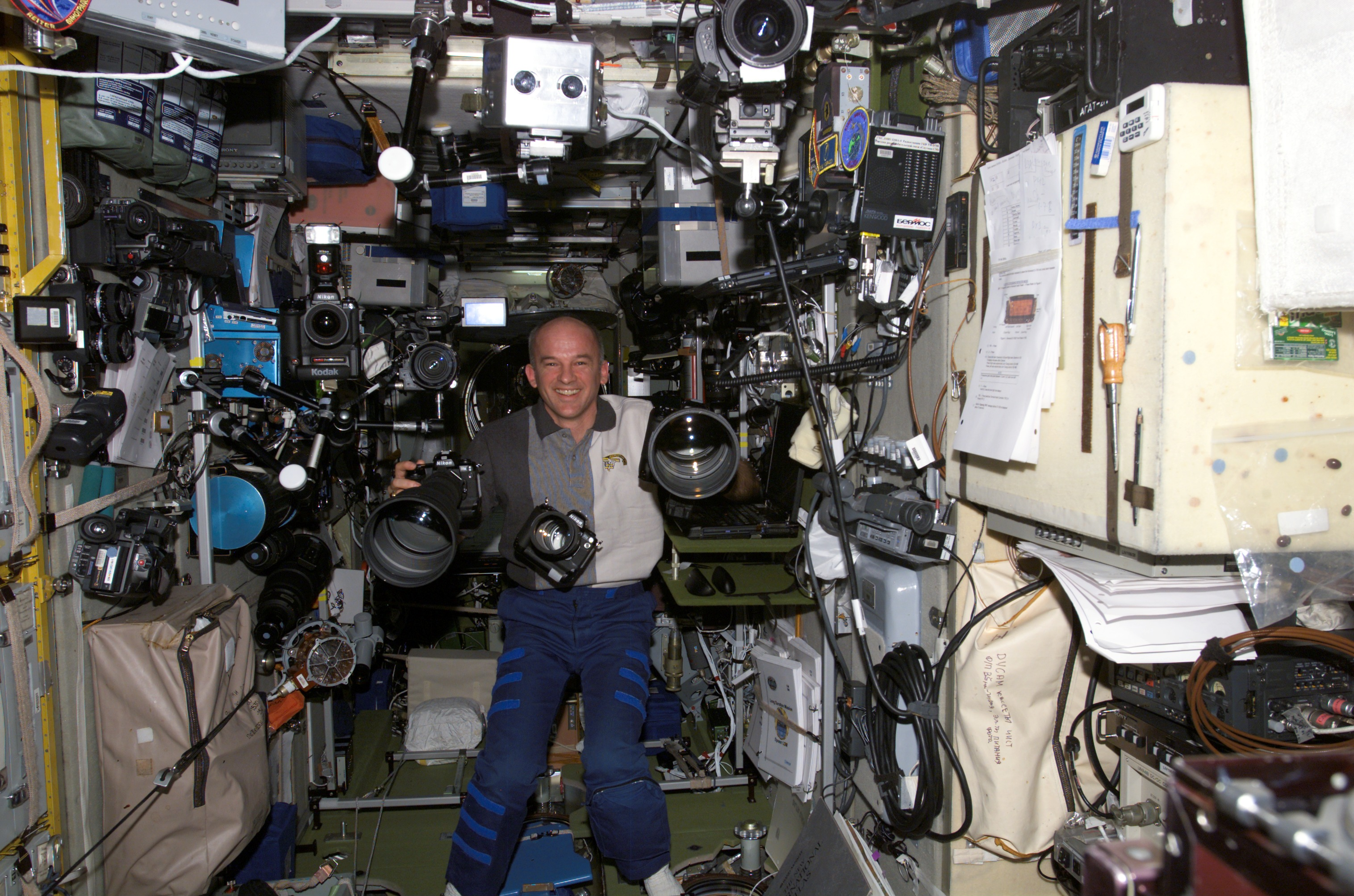 Surrounded by assorted camera gear floating freely, astronaut Jeffrey N. Williams, Expedition 13 NASA space station science officer and flight engineer, smiles for the camera in the Zvezda Service Module of the International Space Station.